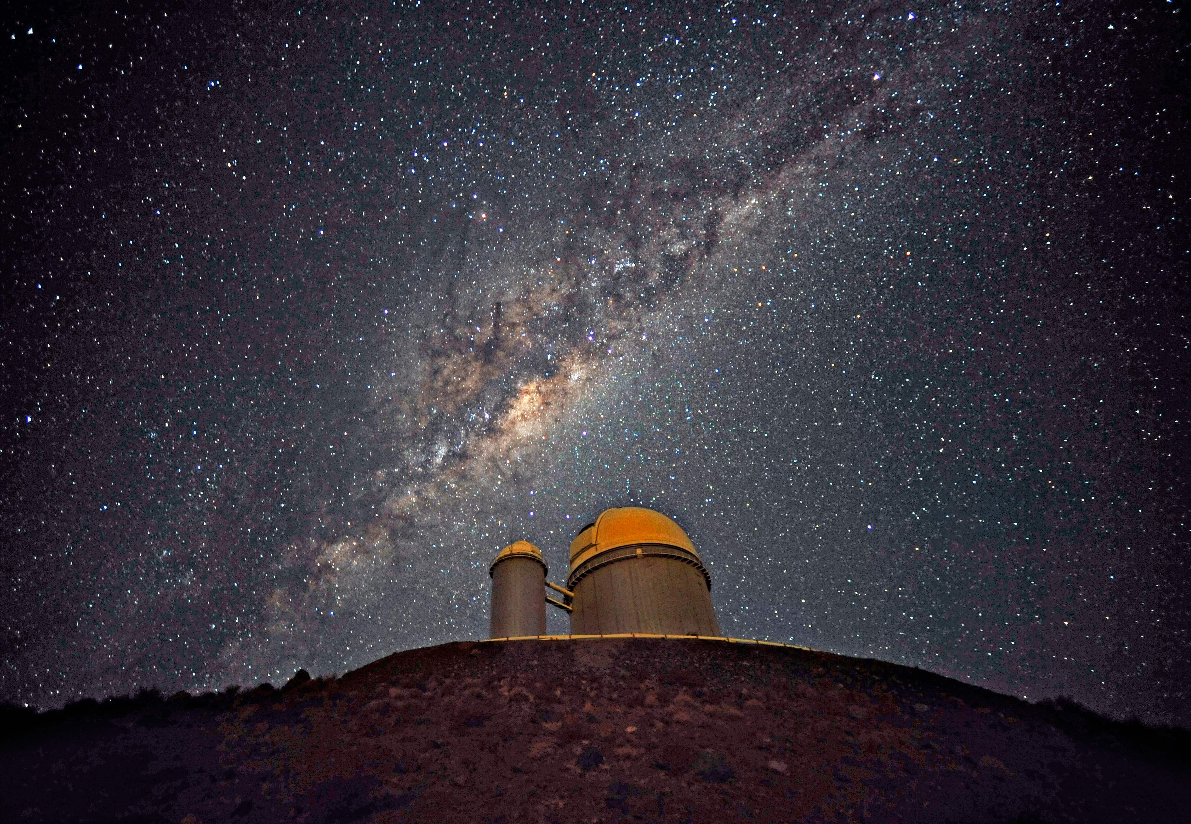 The ESO 3.6-metre telescope at La Silla, during observations, with the telescope's dome lit by the Moon. Across the sky is the plane of the Milky Way, our own galaxy, a disk-shaped structure seen edge-on. Above the telescope dome, and partially hidden behind dark interstellar dust clouds, is the prominent yellowish central bulge of the Milky Way. The plane of the galaxy is populated by hundreds of billions of stars, as well as interstellar gas and dust. The dust absorbs the visible light and re-emits it at longer wavelengths. Where it forms dense dust lanes, it appears dark and opaque to our eyes. The ancient Andean civilisations saw in these dark lanes their animal-shaped constellations. By following the dark lane which seems to grow from the centre of the Galaxy toward the top, we find the reddish nebula around Antares (Alpha Scorpii). The Galactic Centre itself lies in the constellation of Sagittarius and reaches its maximum visibility during the southern winter season. The ESO 3.6-metre telescope, inaugurated in 1976, currently operates with the HARPS spectrograph, the most precise exoplanet “hunter” in the world. Located 600 km north of Santiago, at 2400 m altitude in the outskirts of the Chilean Atacama Desert, La Silla was the first ESO site in Chile and the largest observatory of its time.